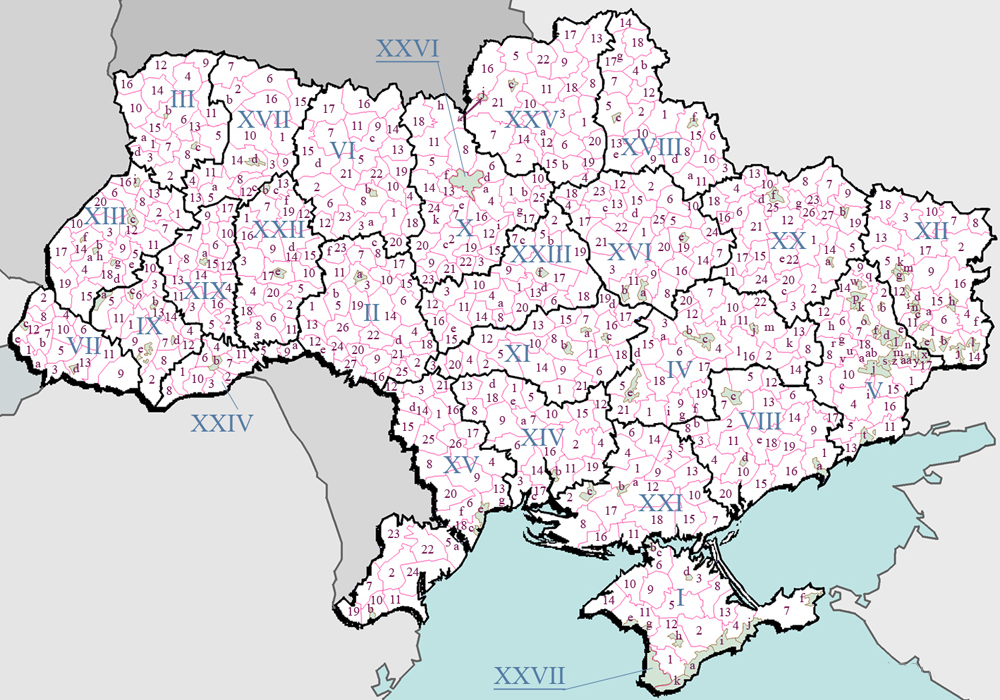 Map of raions and provincial-level cities of Ukraine. 2006